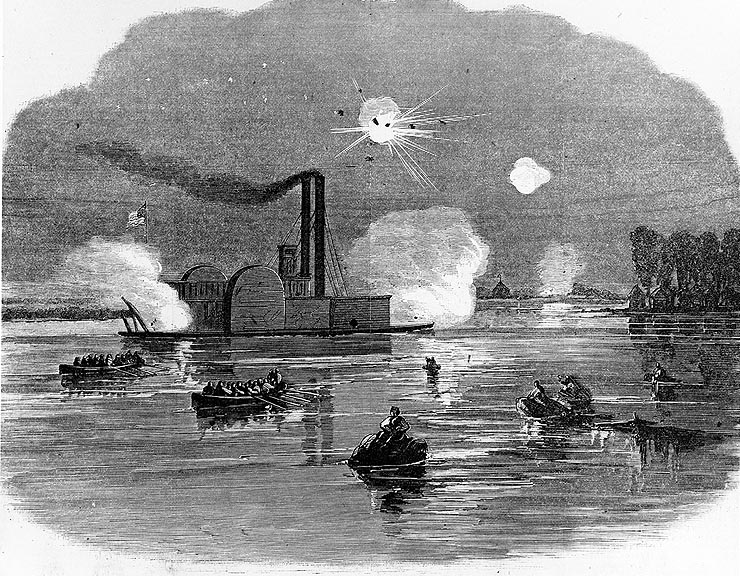 "The Loss of the 'Queen of the West'" Grounding and capture of the USS Queen of the West while she was operating on the Red River near Fort DeRussy, Louisiana on 14 February 1863.